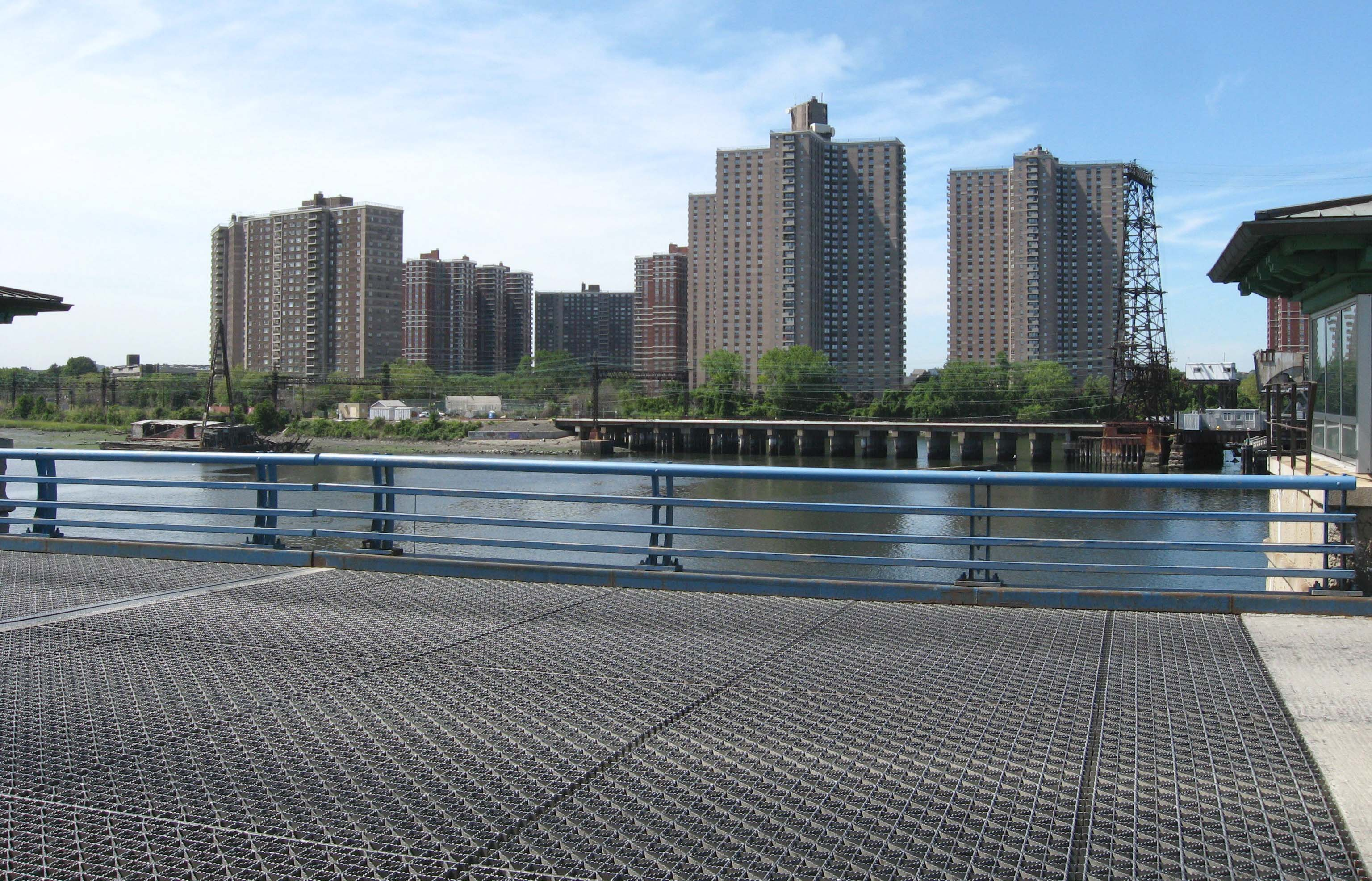 Looking west across the bascule of Pelham Bridge at Co-op City and the Amtrak bascule bridge over Hutchinson River on a sunny midday. See also Image:Pelham Bridge jeh.JPG